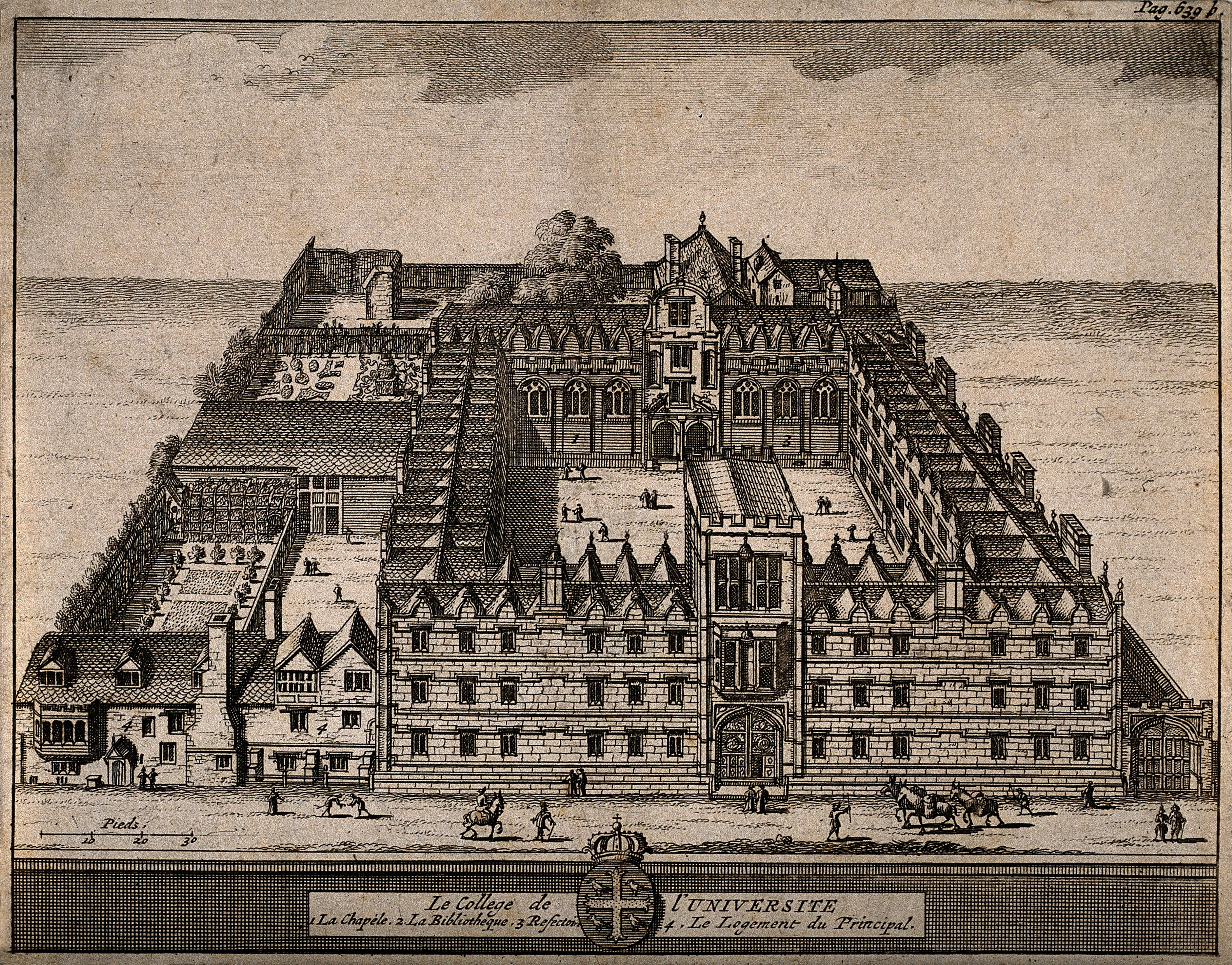 University College, Oxford: aerial view with key and scale. Line engraving. Iconographic Collections Keywords: University College (Oxford); University of Oxford